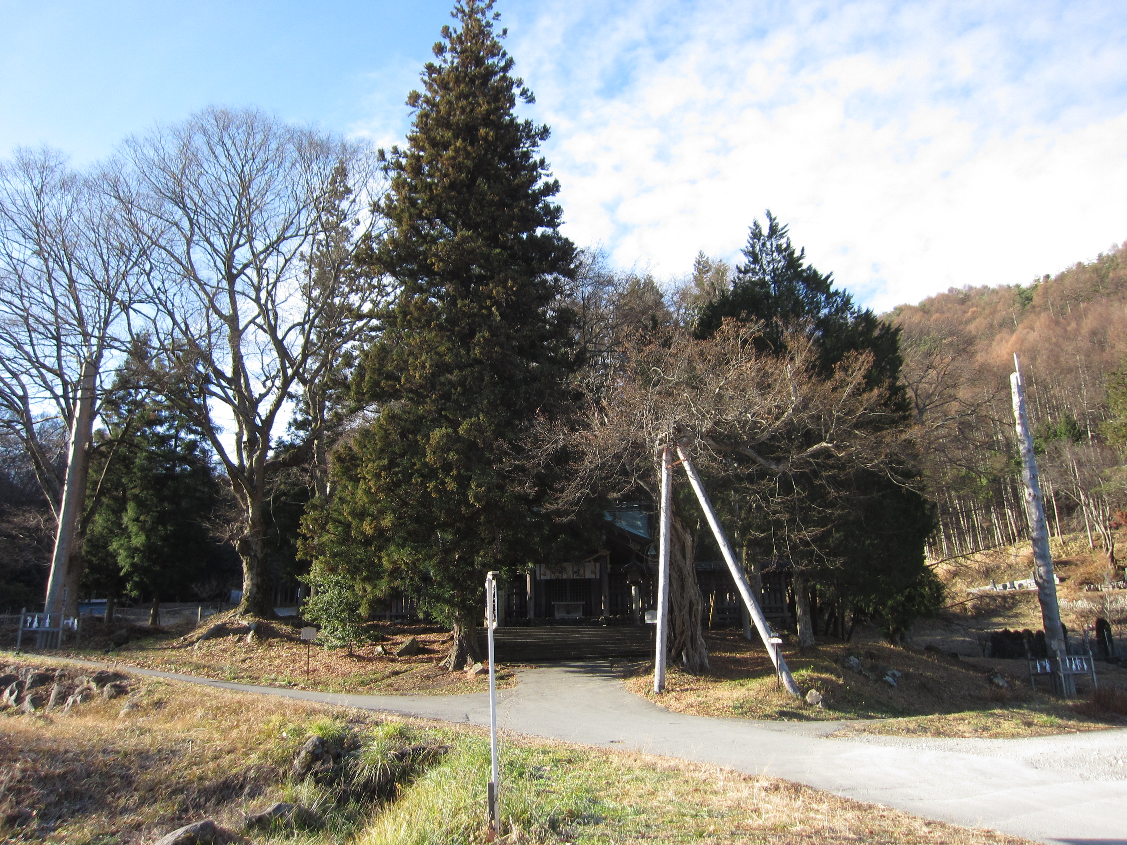 Panoramic view of the Maemiya's honden.